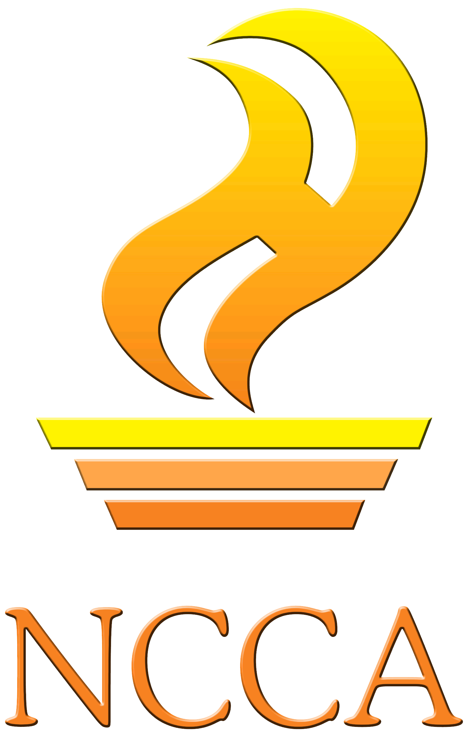 Seal of the National Commission for the Culture and the Arts of the Philippines